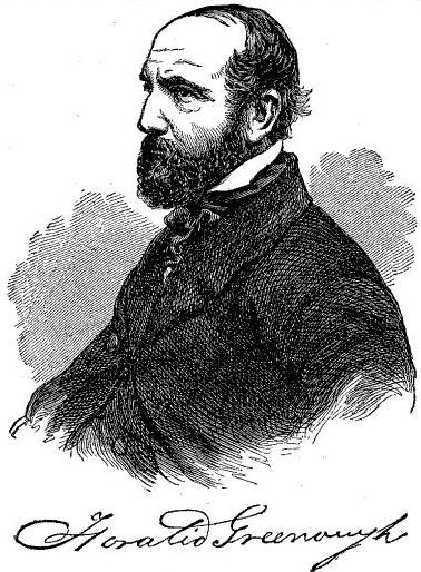 Horatio Greenough